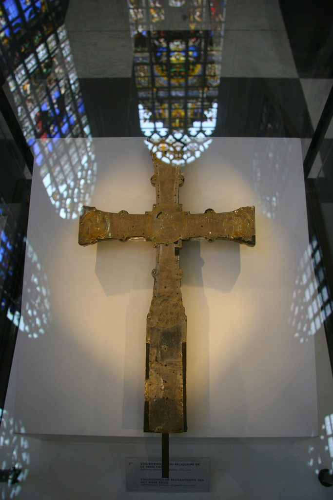 Reliquary of the True Cross, known as Drahmal, in the treasury of the St. Michael and Gudula cathedral in Brussels. The reqliquary was made in England around 1000-1100.